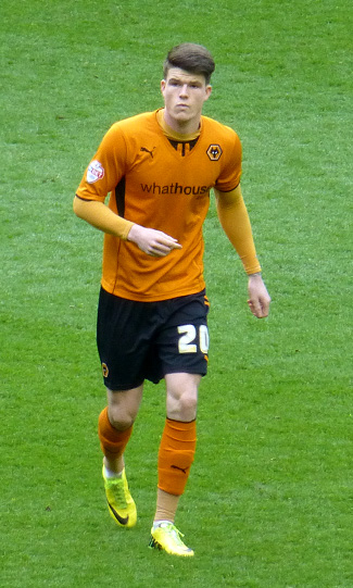 Liam McAlinden - Wolverhampton Wanderers vs Peterborough United (05/04/2014)